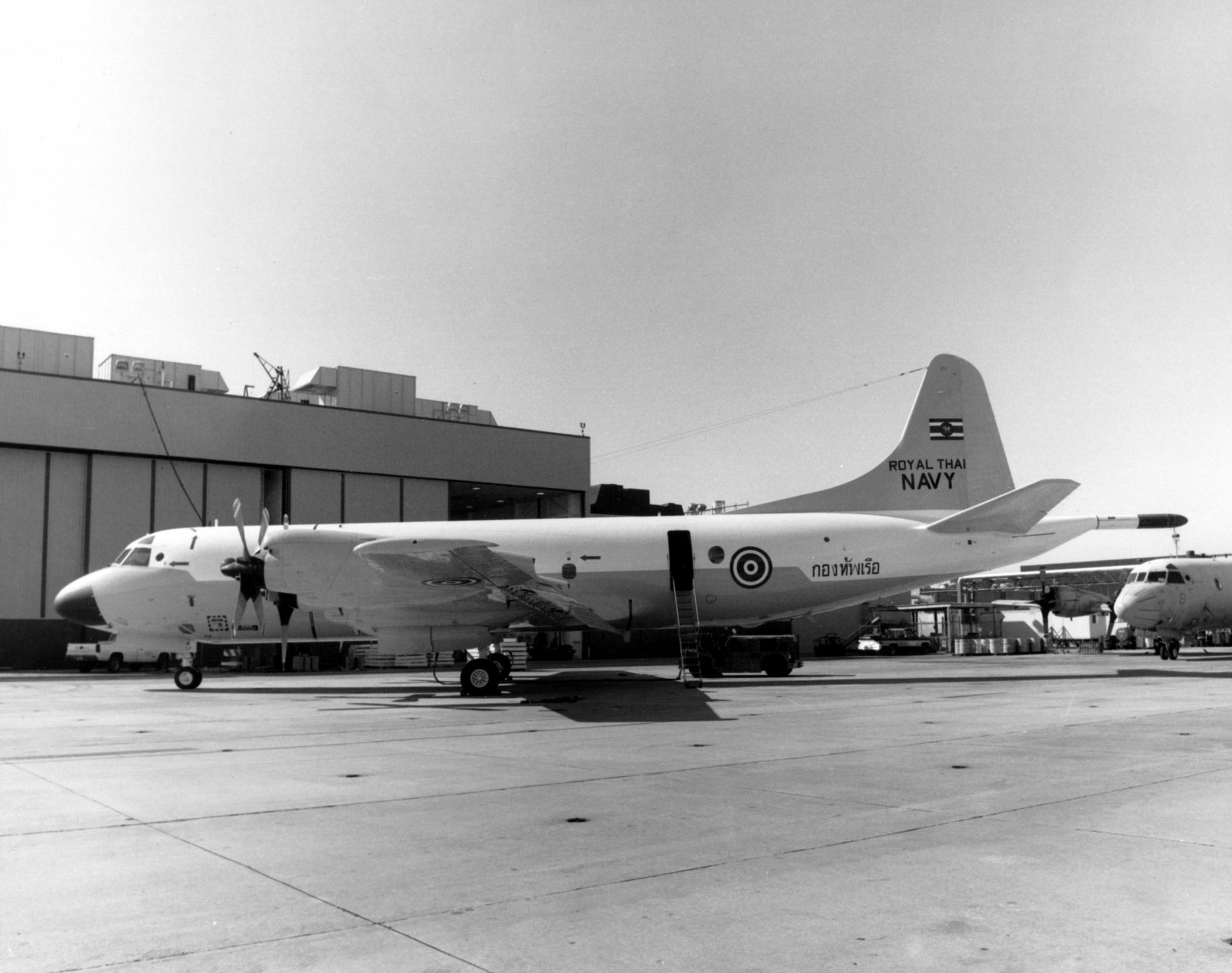 A Royal Thai Navy Lockheed P-3T Orion sits on the ramp after rework at Naval Aviation Depot Jacksonville at Naval Air Station Jacksonville, Florida (USA), in the 1980s.